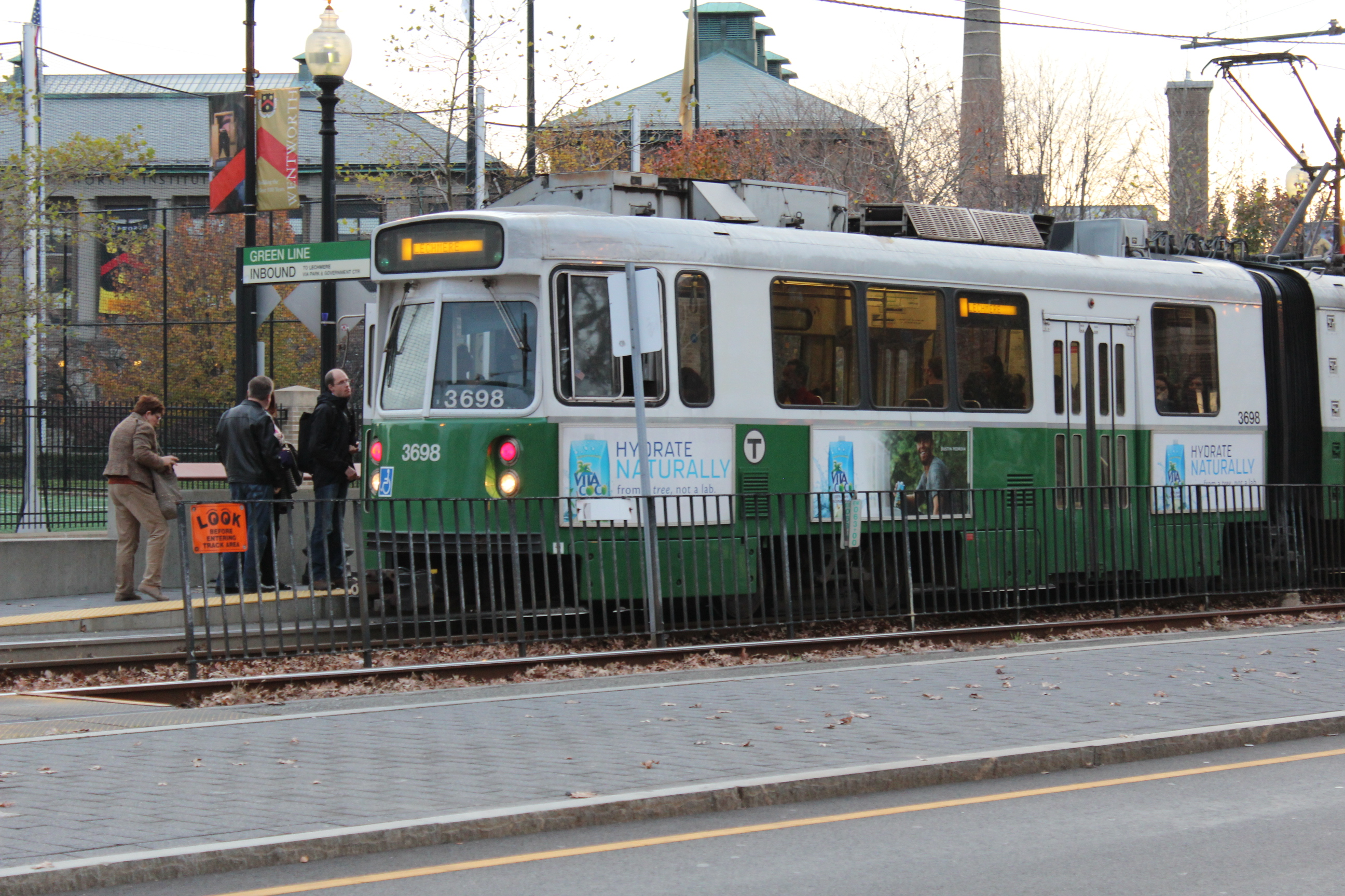 A type 7 tram inbound at Museum of Fine Arts